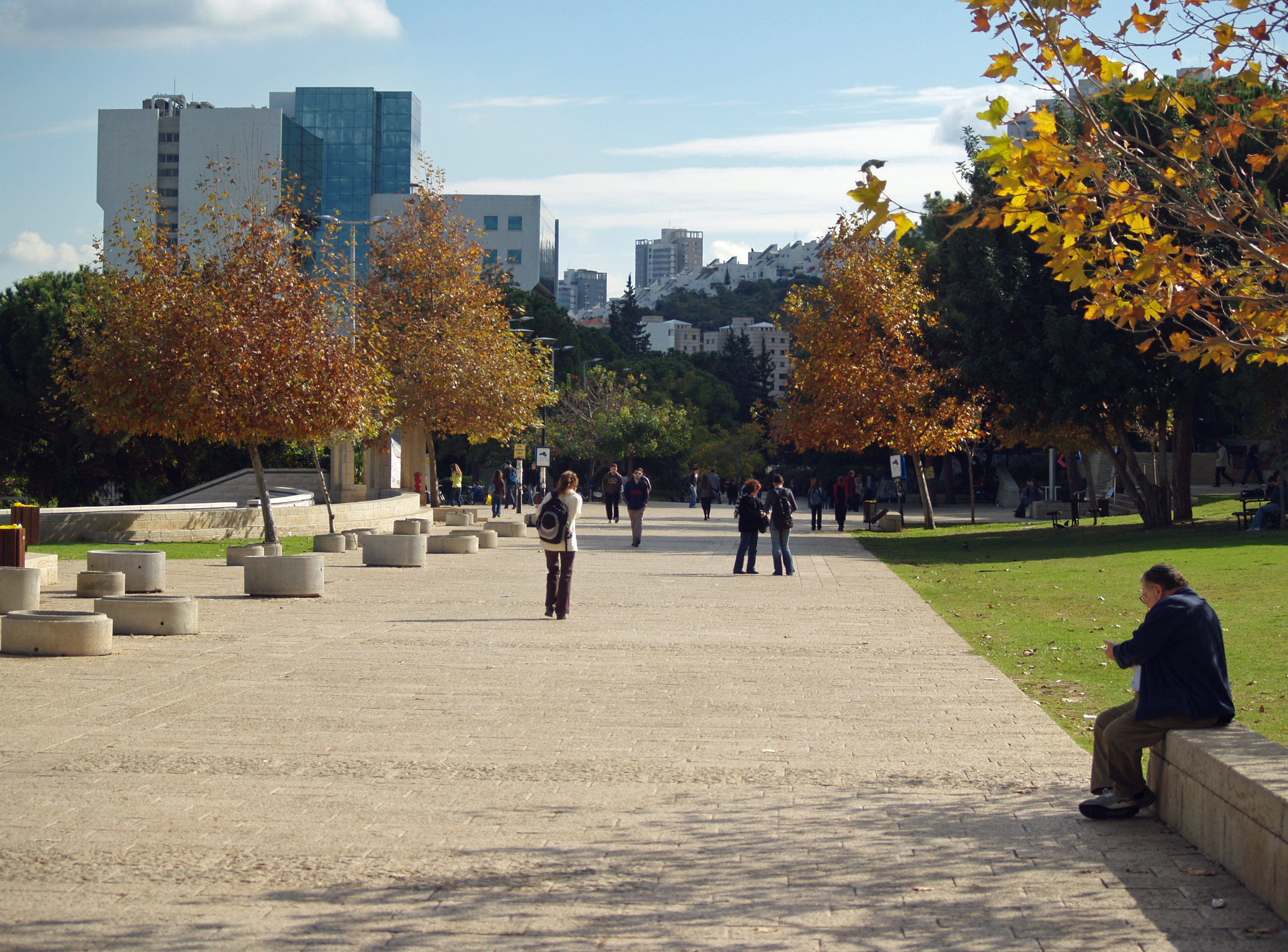 Technion walkway in Haifa, Israel.